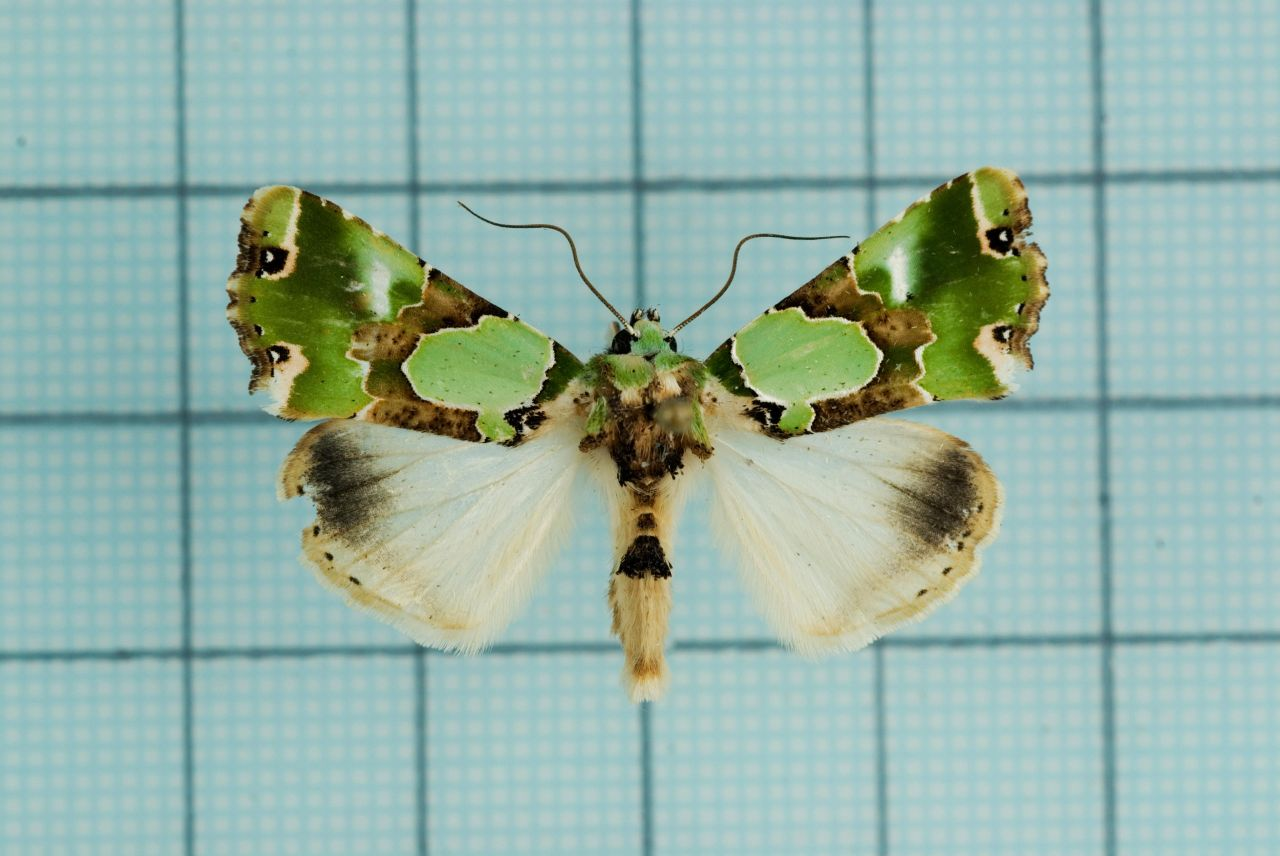 Nacna malachitis (Oberthur, 1880) 綠孔雀夜蛾 鞍1:P.77,Pl.23-14,36-5 female